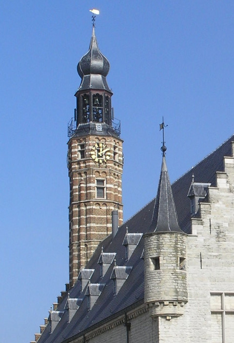 Belfry of old town hall / cloth hall (Herentals, Belgium)